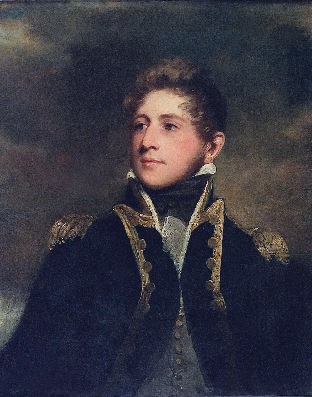 Captain Peter Parker (1785-1814) oil on canvas 76.2 x 63.5 cm circa 1808-1810